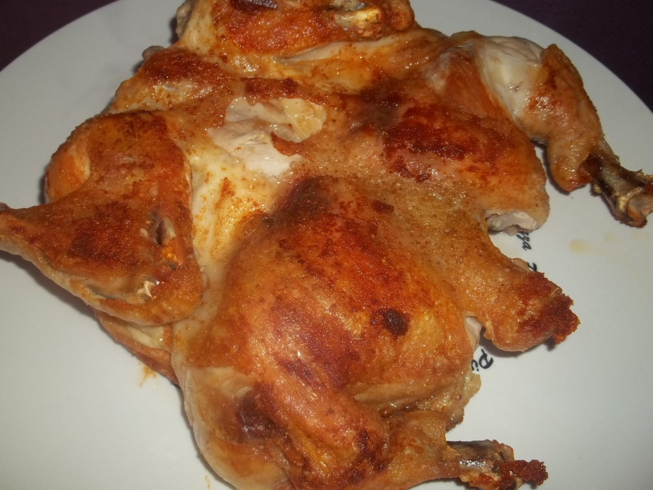 Chicken tabaka (traditional Georgian dish)